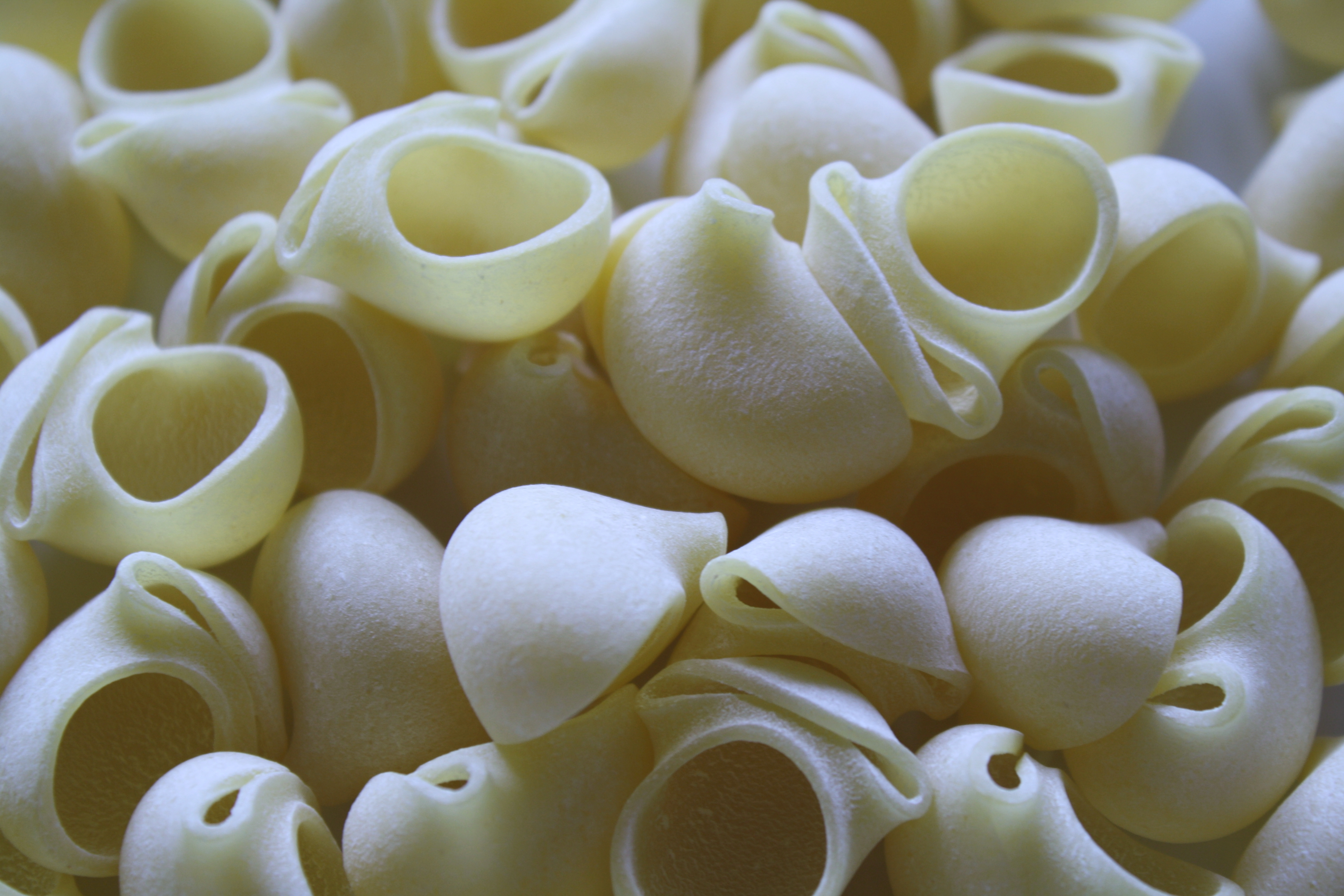 uncooked Italian lumache pasta, photographed in my own kitchen, illuminated by natural daylight